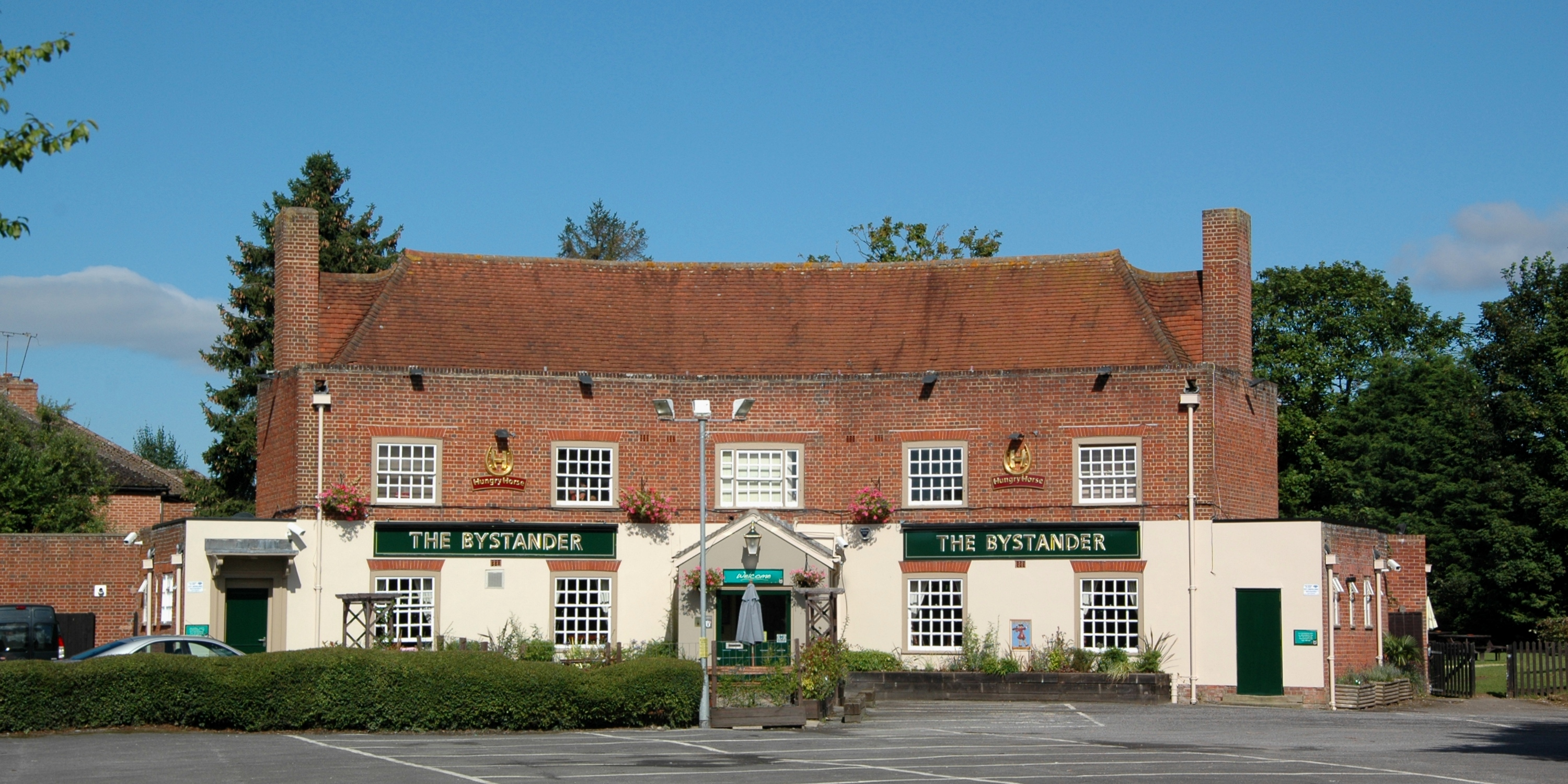 The Bystander public house, Wootton, Vale of White Horse, Oxfordshire (formerly Berkshire): a former Morland pub built in the 20th century, now part of the Hungry Horse chain